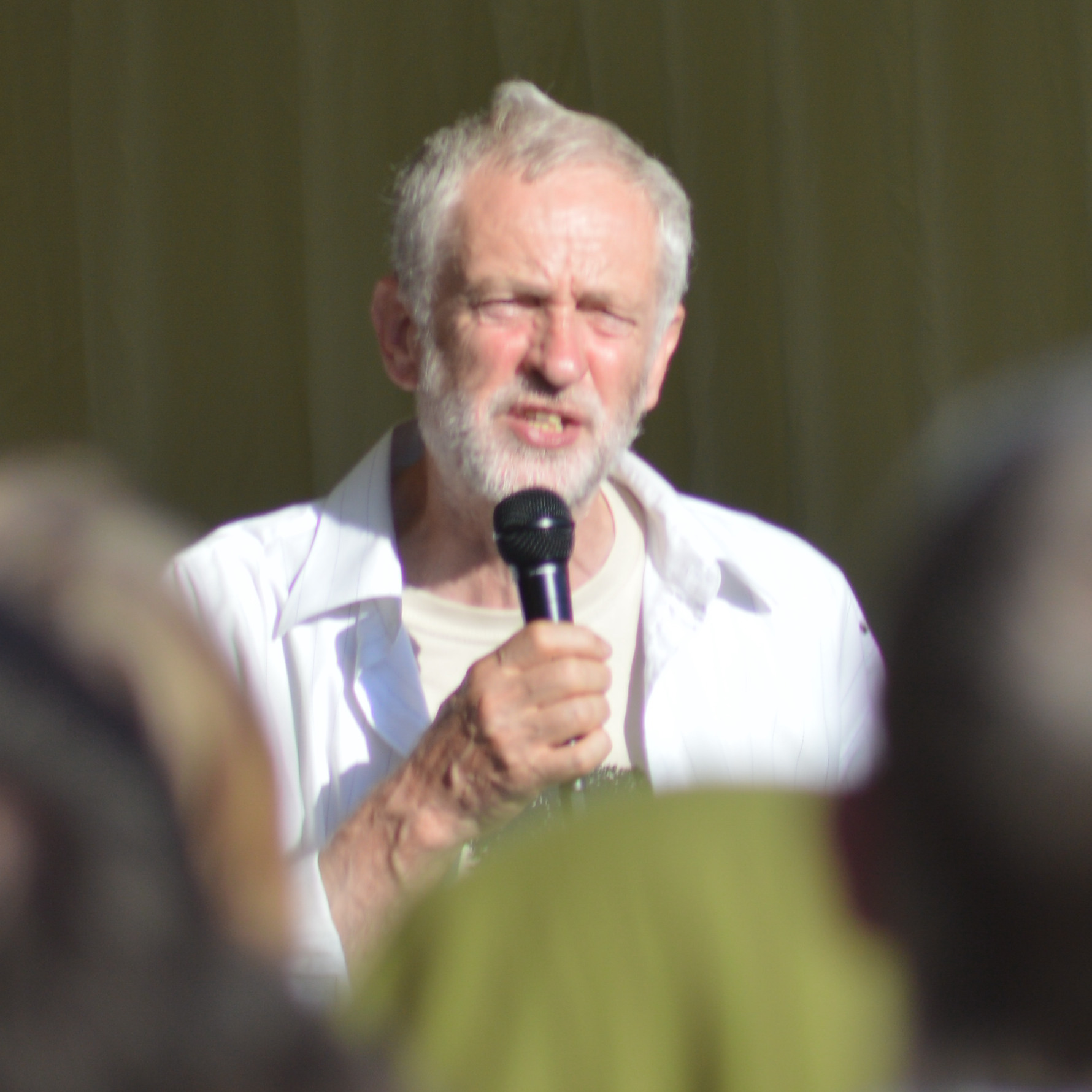 Jeremy Corbyn speaking at the Tolpuddle Martyrs' Festival and Rally 2015. He did not speak from the main stage, but from the Unison South West tent after main stage events finished. Corbyn was looking directly into the evening sunshine, which was obviously causing him difficulty. (video of speech)